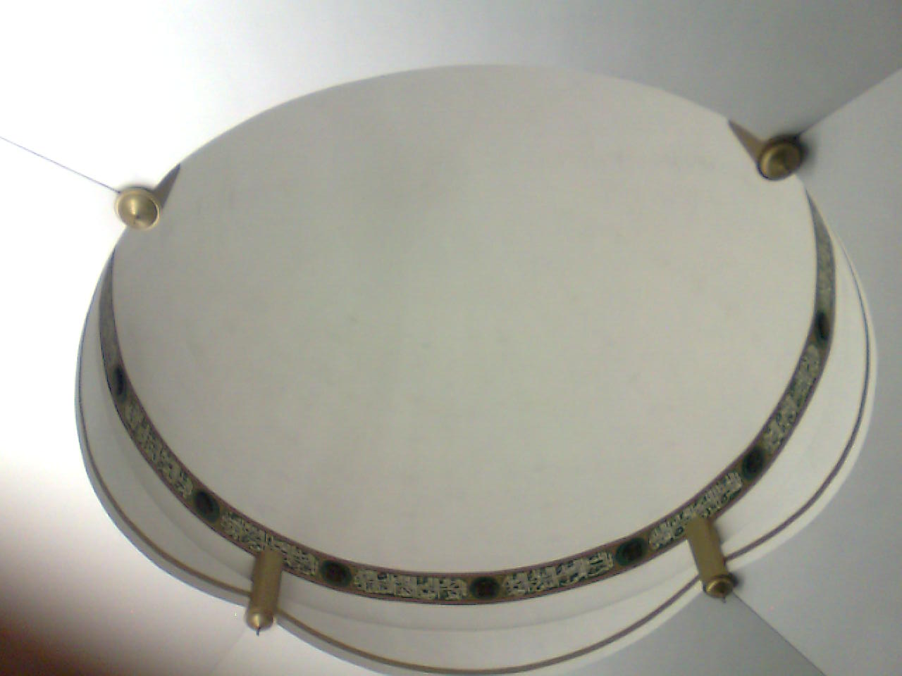 The interior of the dome inside the East London Mosque (London, UK).